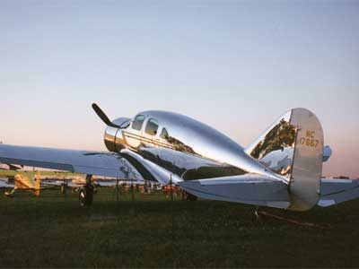 Display photo of a parked Spartan Executive 7W.